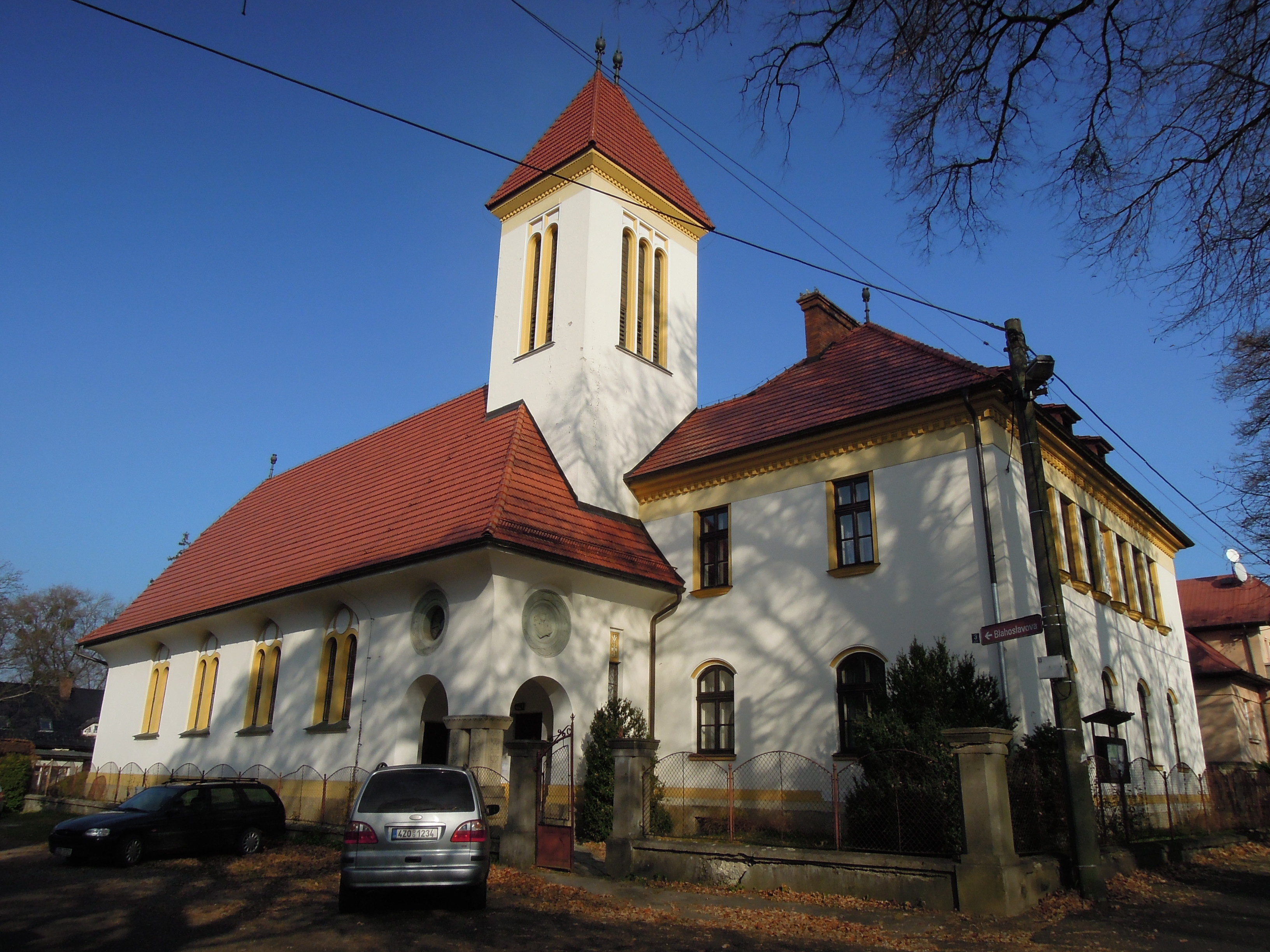 Church of Evangelical Church of Czech Brethren in Valašské Meziříčí, Vsetín District, Zlín Region, Czech Republic